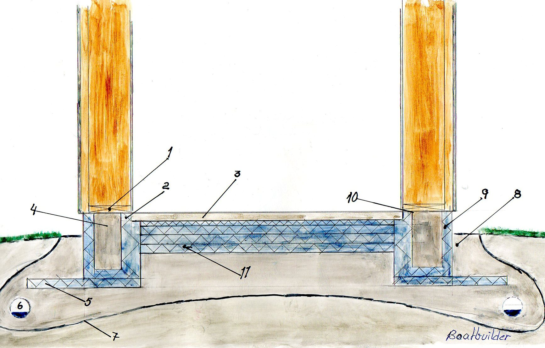 Slab on grade